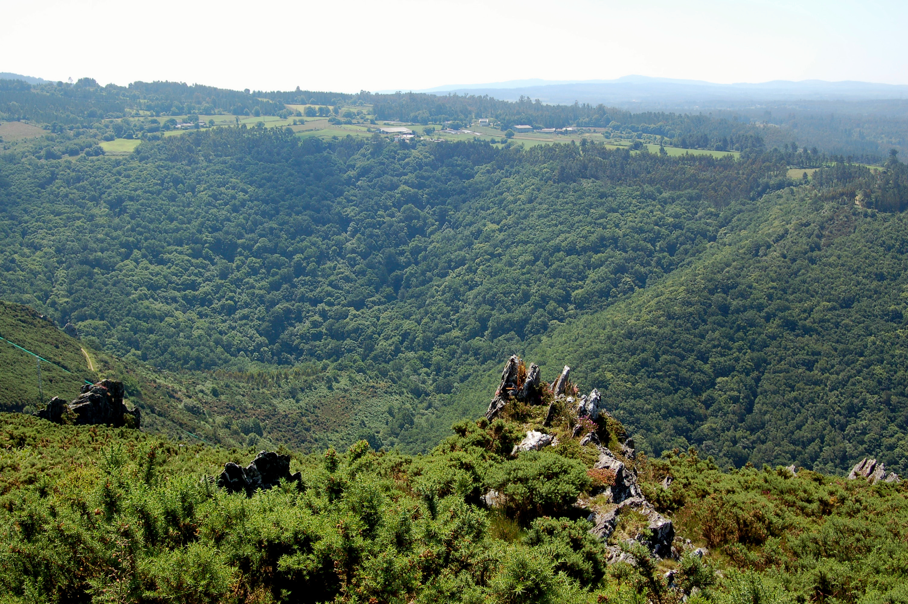 Barranco da Loba na Cordal de Montouto